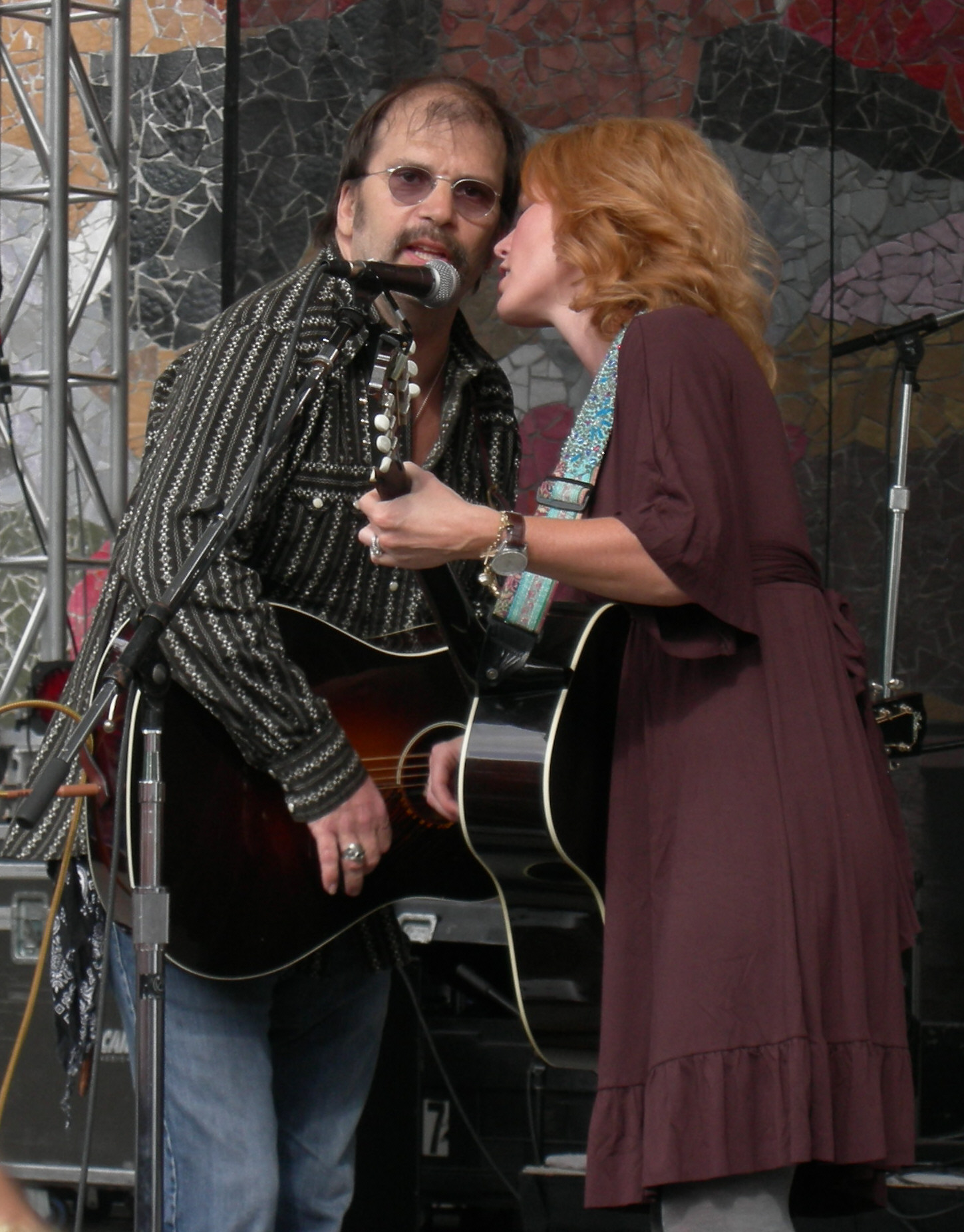 Steve Earle joins Allison Moorer onstage during her set at Bumbershoot, a music and arts festival held every Labor Day at Seattle Center, Seattle, Washington. (The two musicians are married to one another.) This image has been through a bit of sharpening.